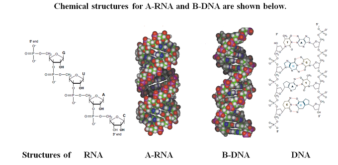 BNAH1